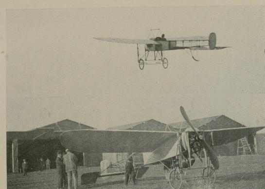 A Blériot XI aircraft in flight.